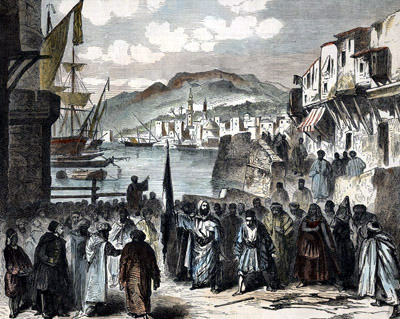 An artist's depiction of a scene after the 1860 events in Lebanon. Abd al-Qader in the center.